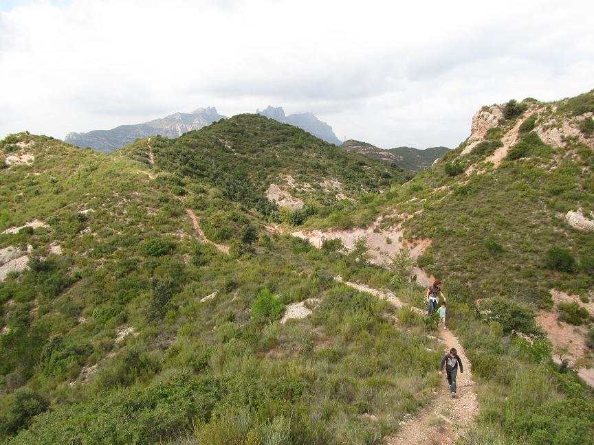 Trail between Vacarisses and Olesa de Montserrat